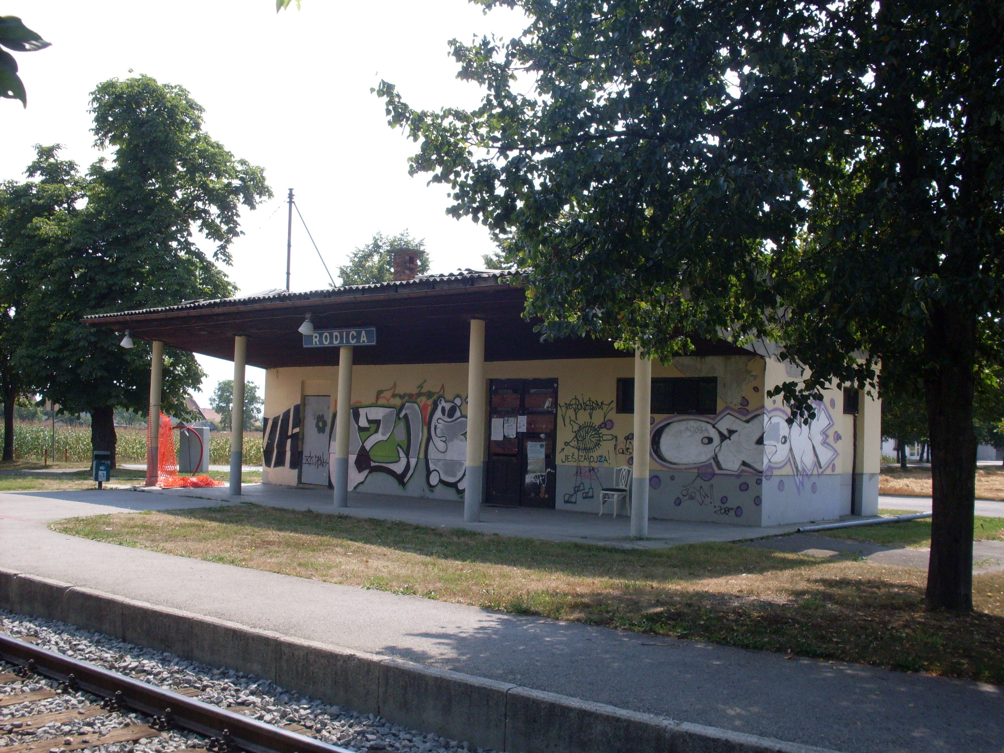 Railway halt in Rodica (near Domžale), Slovenia